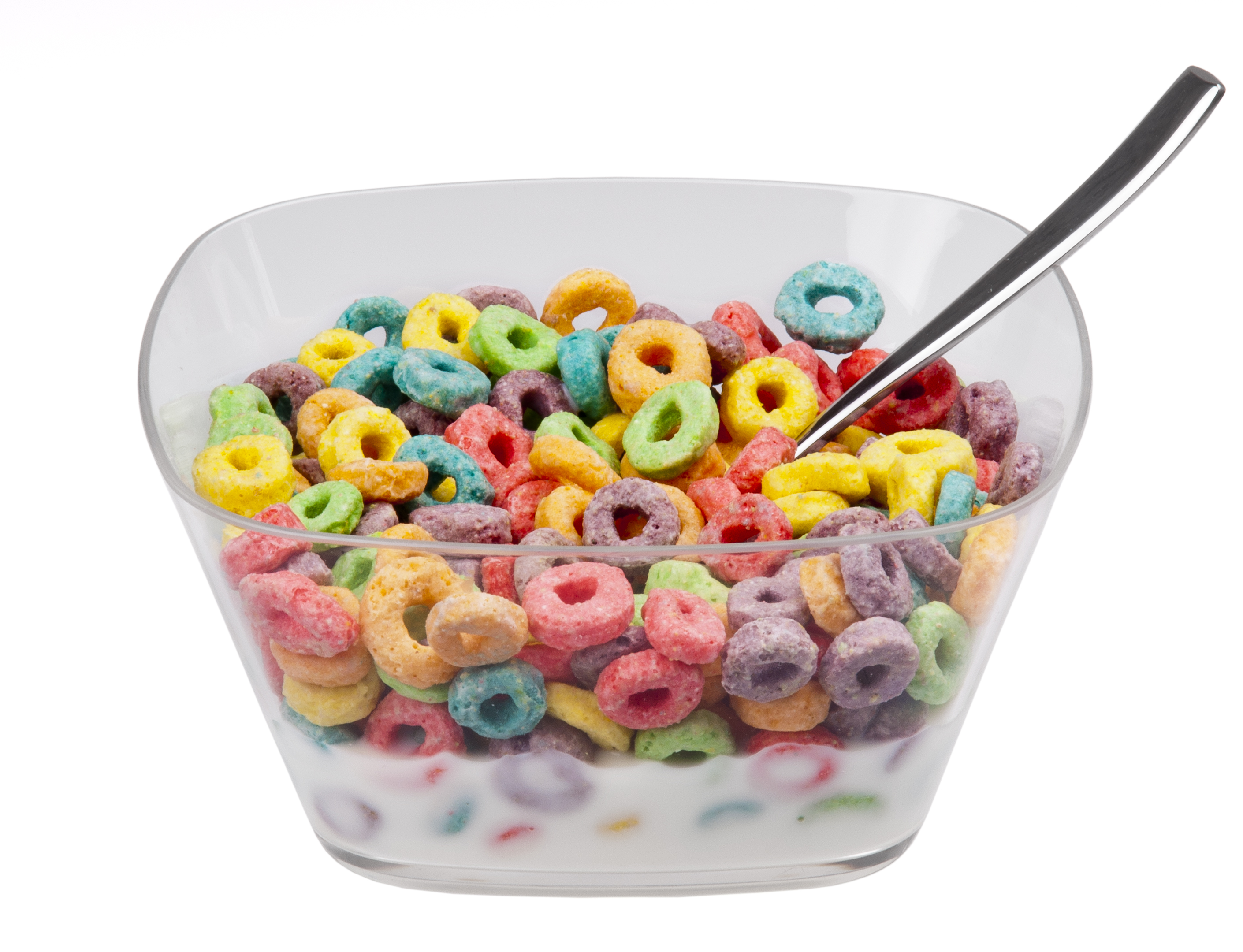 A bowl of Kellogg's Froot Loops cereal. Shown in a clear bowl with a spoon and milk.